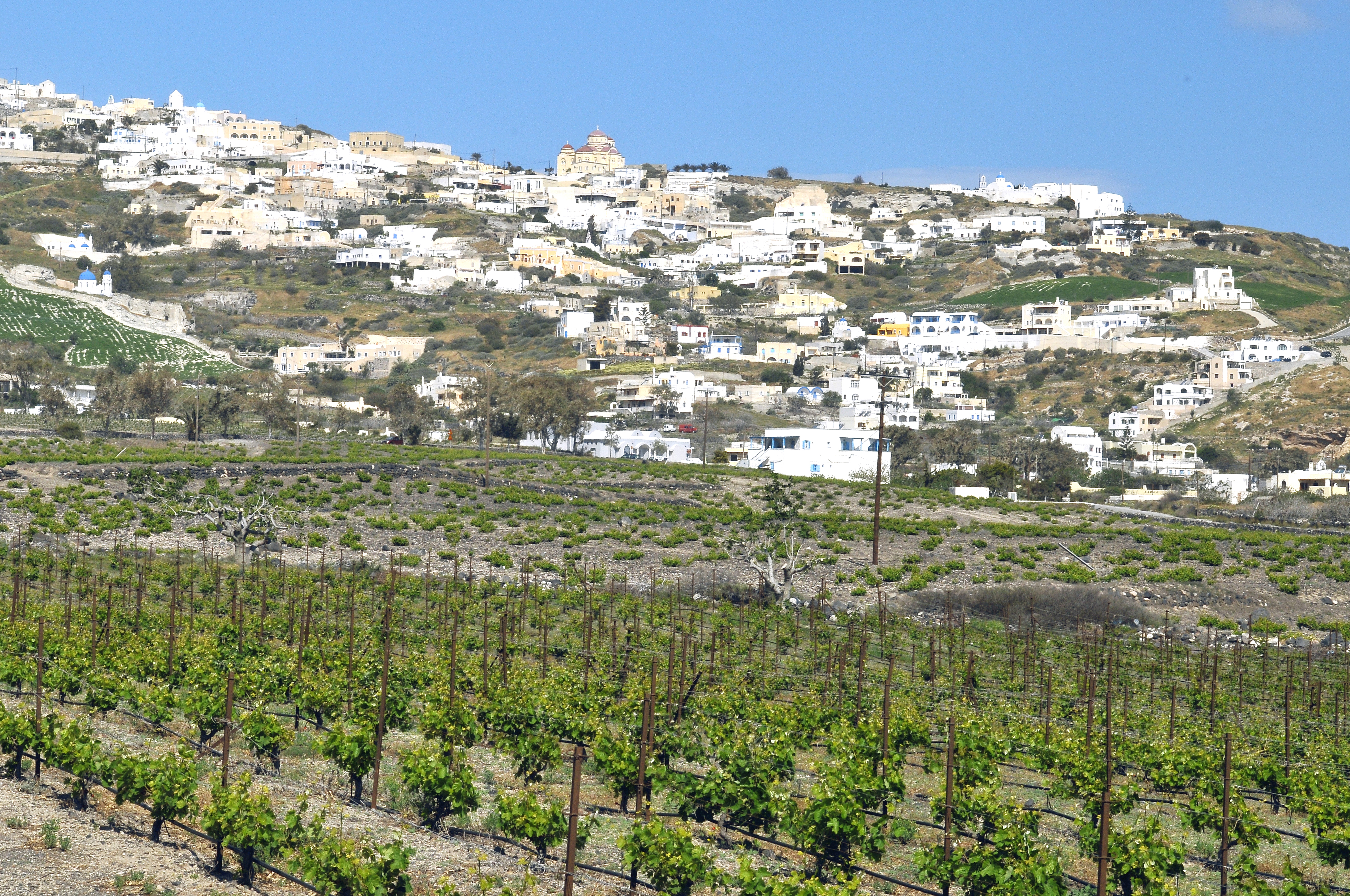 The village and vineyard: Exo Gonia, Santorini, Cyclades, Greece